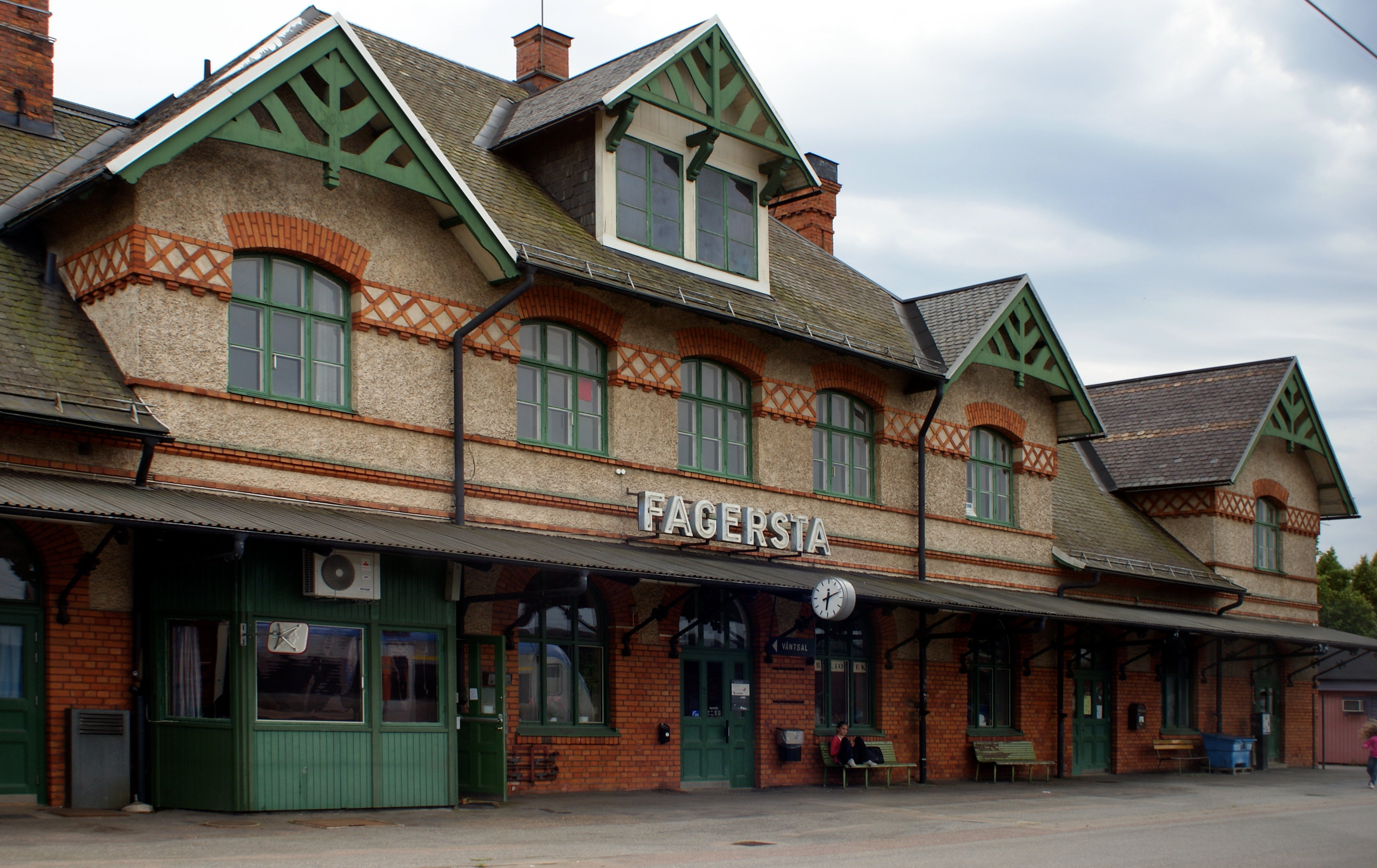 Fagersta train station.